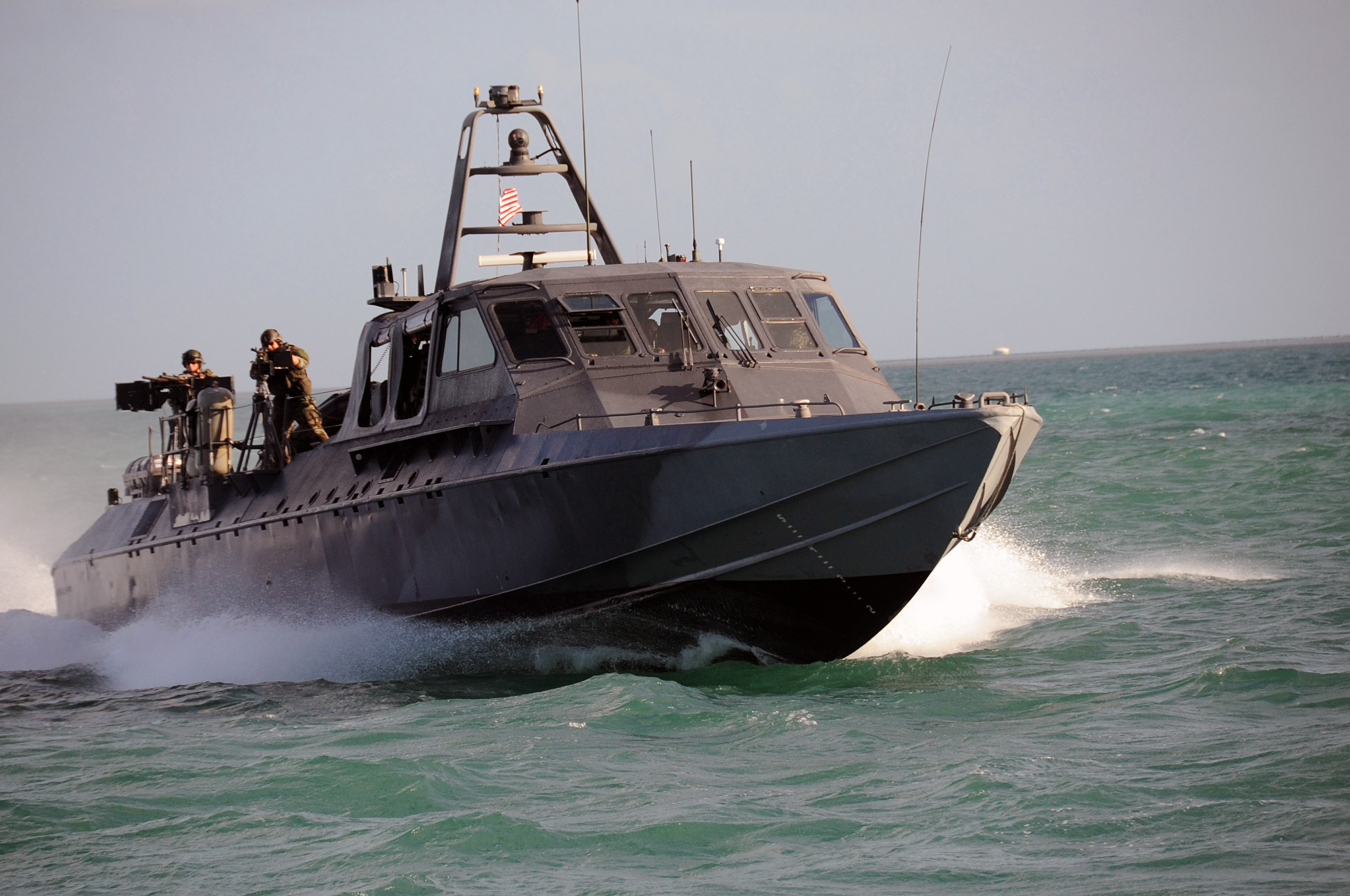 KEY WEST, Fla. (April 28, 2009) A Special Warfare Combatant-Craft Crewman (SWCC) assigned to Special Boat Team (SBT) 20 navigates the MARK V Special Operations Craft for a scene in the upcoming Bandito Brothers production ¨I Am That Man", due in theaters in 2010. SWCC operate and maintain the Navy's inventory of state of the art, high-speed boats in support of special operations missions worldwide. (U.S. Navy photo by Chief Mass Communication Specialist Kathryn Whittenberger/Released)